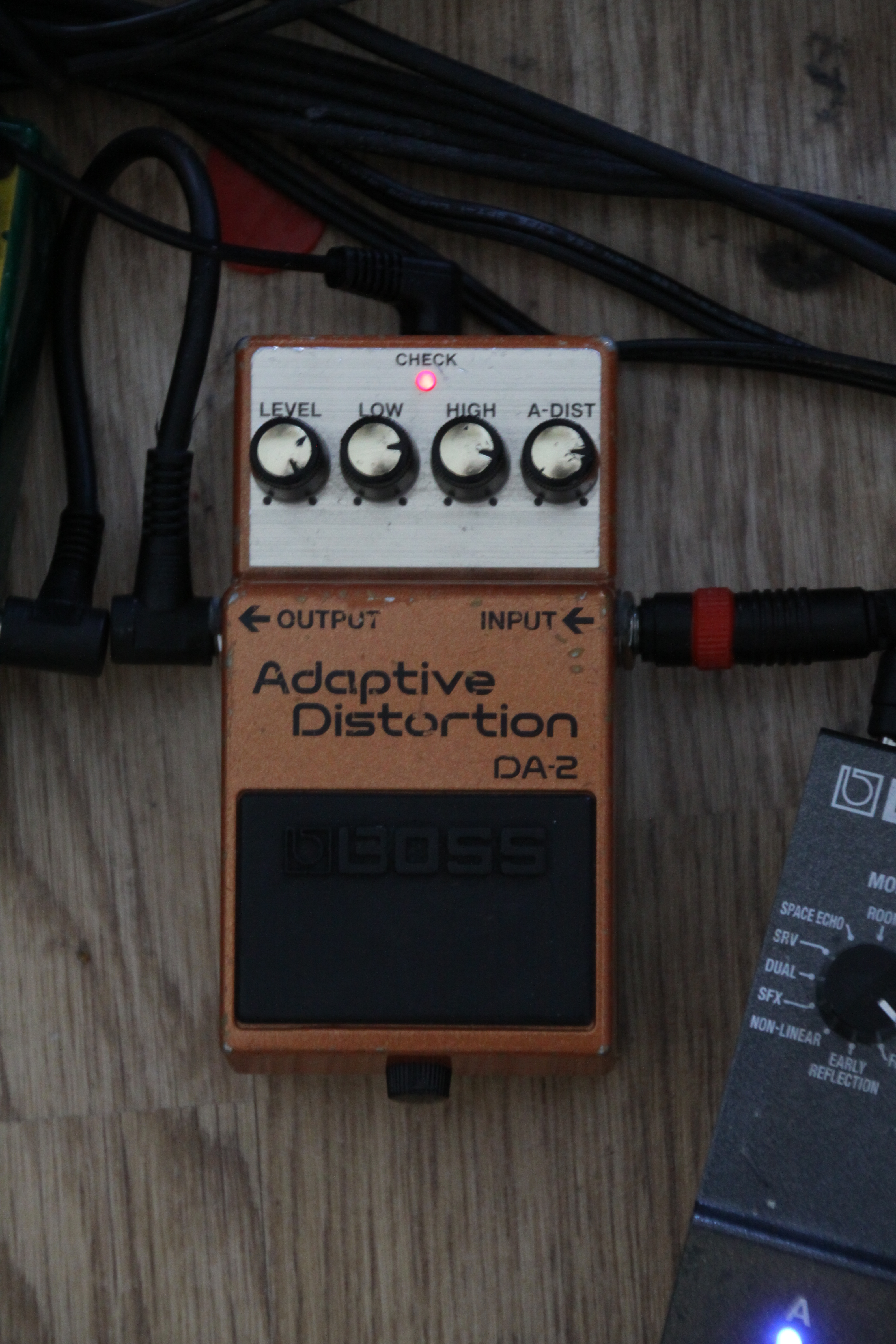 BOSS DA-2 Adaptive Distortion